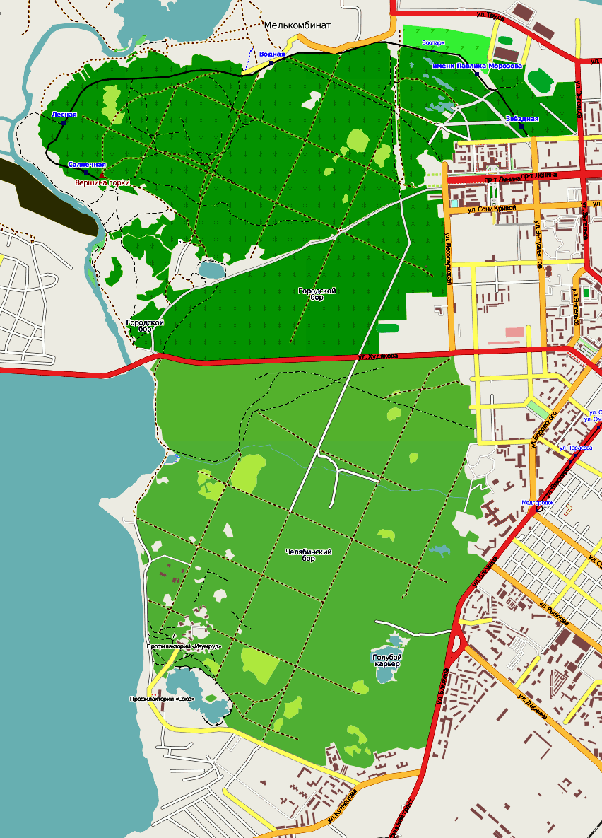 Map of Chelyabinsky goroskoy bor (Chelyabinsk's Forest) from OpenStreetMap rendered by Mapnik